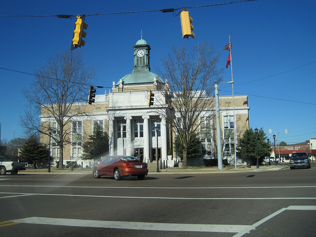 Somerville, Tennessee, Fayette County courthouse and town hall City hall